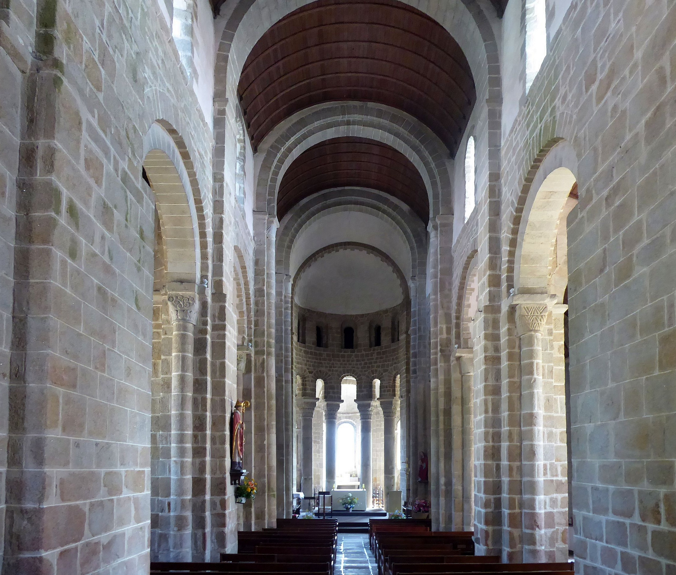 Interior of Église Saint-Tudy de Loctudy